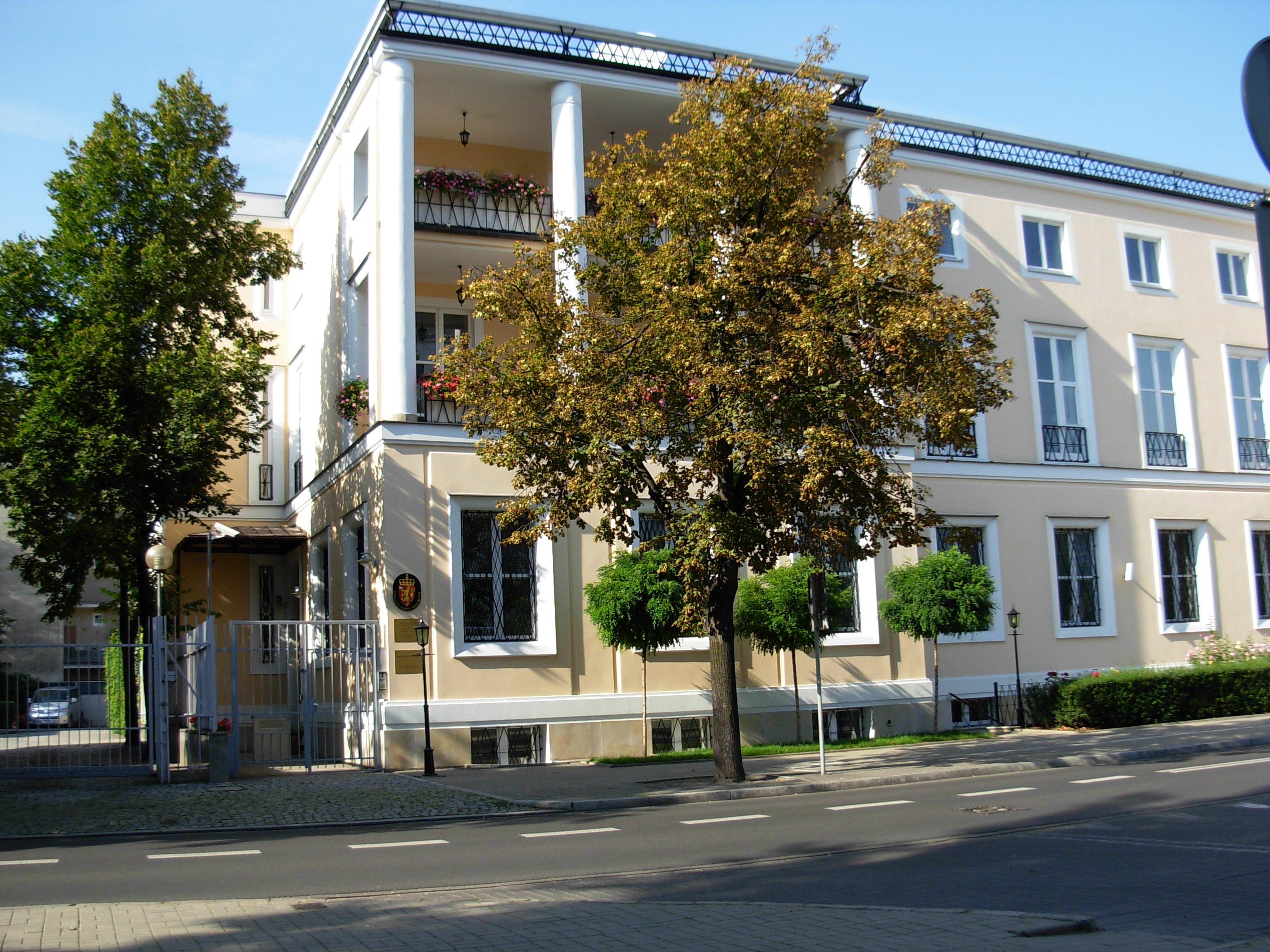 Embassy of Norway in Warsaw